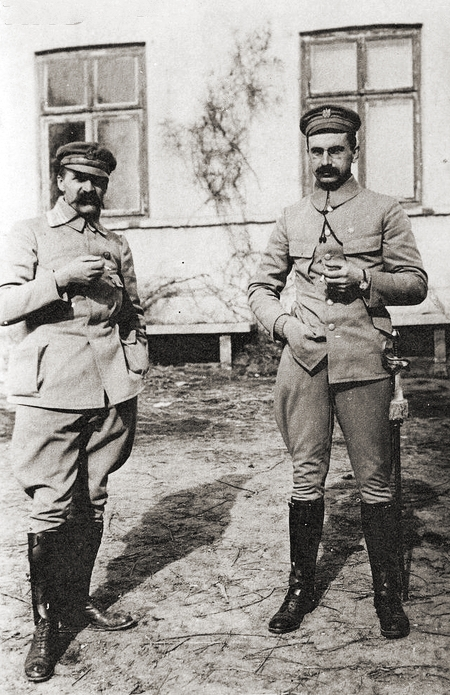 Józef Piłsudski and Kazimierz Sosnkowski front of the Manor Julian Zubrzyckiego in Grudzyny, where stationed Staff of the 1st Brigade of the Polish Legions. The period of the fighting the 1st Brigade of the Nida. (source: Lipiński W. Walka zbrojna o niepodległość Polski 1905-1918, wyd. LTW, Łomianki 2016; s. 88.)